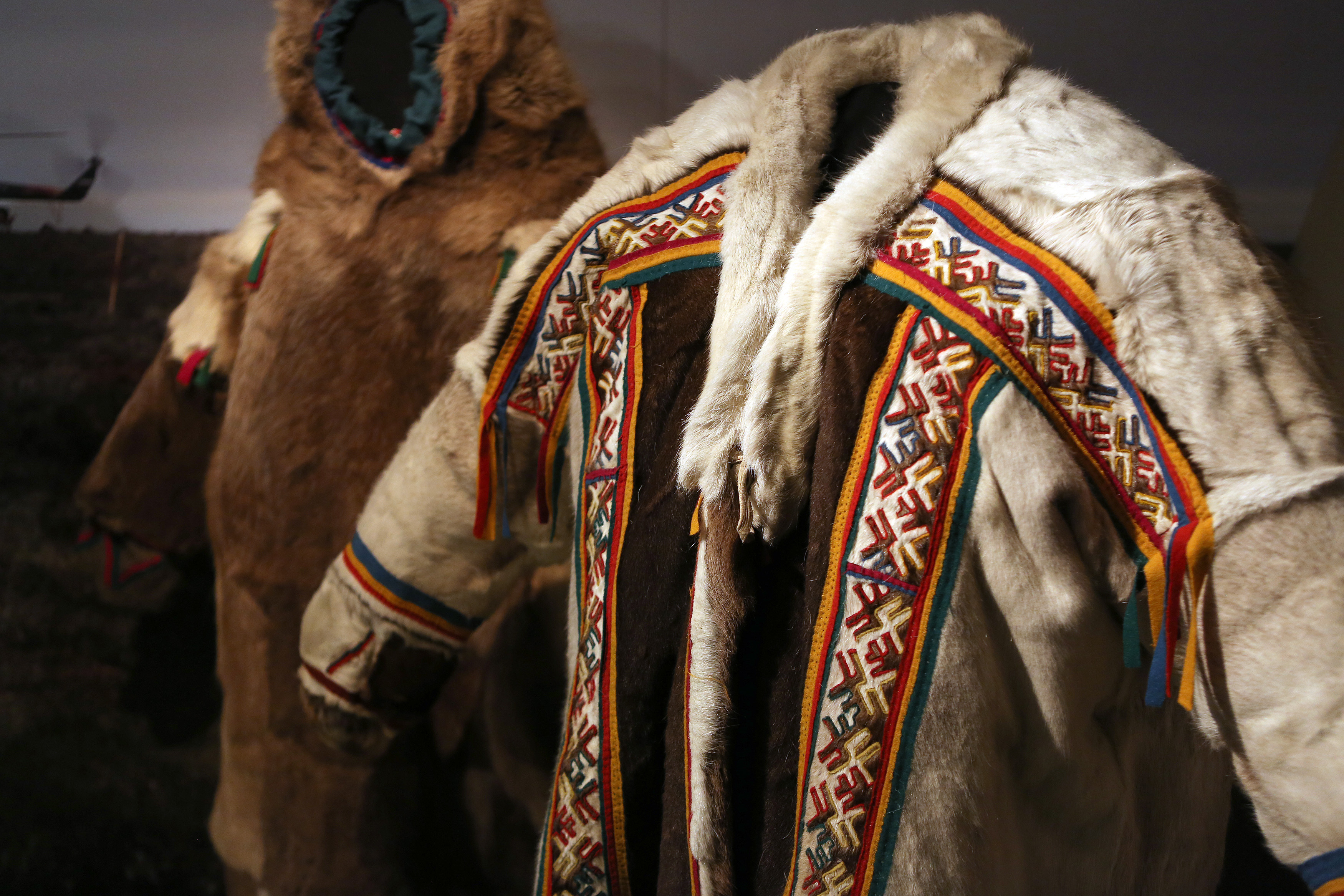 Exhibition dedicated to the culture of the Nenets at Siida museum in Inari, municipality of Inari, Finland.